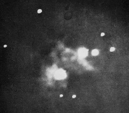 First photograph of the Nebula in Orion. Taken by Professor Henry Draper in 1880. The large stars, being much brighter than the nebula, are greatly overexposed.